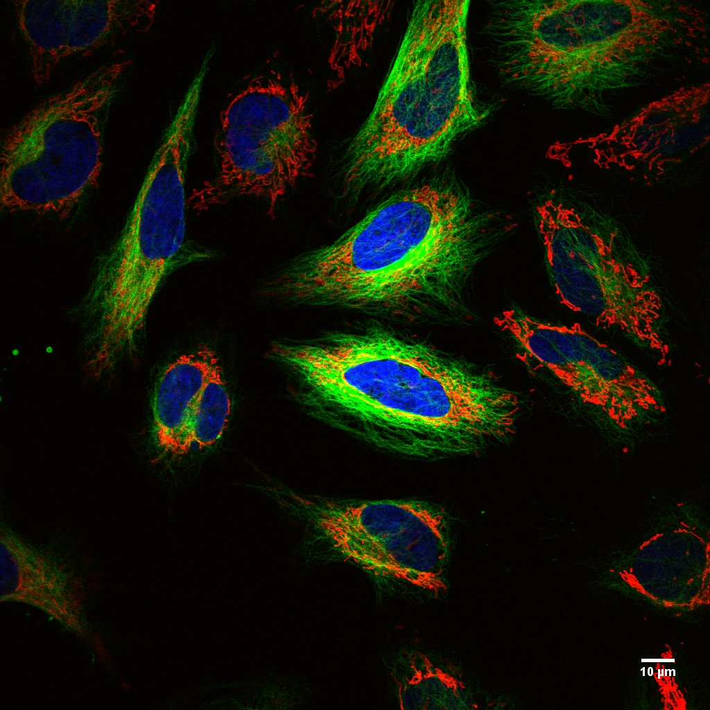 Confocal image (cLSM) of living HeLa cells. Mitochondria are stained in red (Mitotracker red), the nucleus is seen in blue (DAPI). icrotubules are stained in green (Tubulintracker green). Mitochondria form dense and dynamic networks in the cells soma and colocalize with the tubulin network.